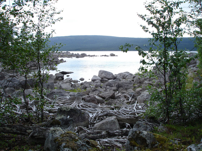 View of lake Storjuktan from Skärfo in the north. Beginning of August 2013. The water reservoir is almost full, but the upper part of the eroded shores shows.